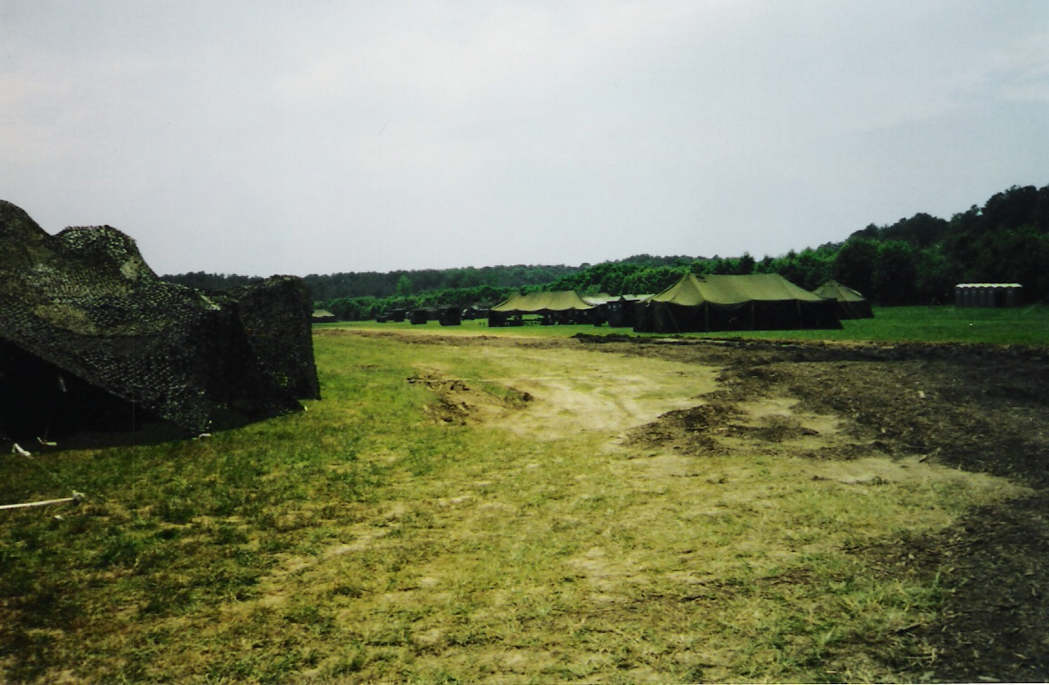 Fort Eustis, Virgina, United States Army. During Operation TRANSLOTS, 2001.